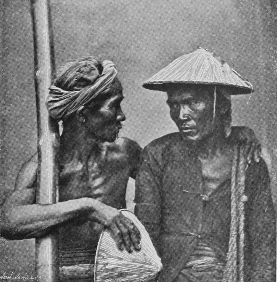 photo from Through China with a camera